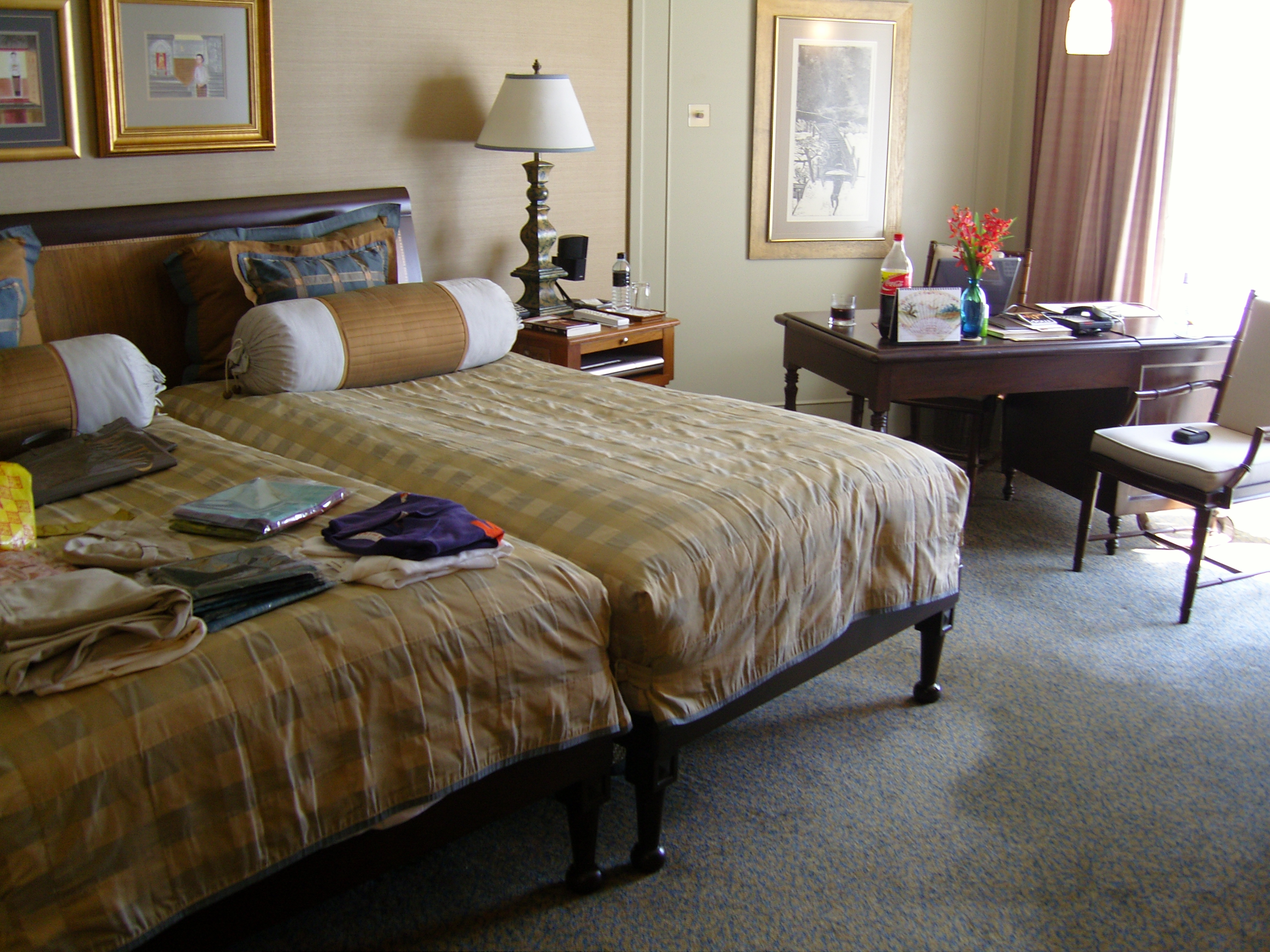 Another shot of the room at The Oriental Hotel, Bangkok, Sorry about the mess. I'm packing :-). The Oriental Hotel is part of the Mandarin Oriental hotel chain. Location: Bangkok.